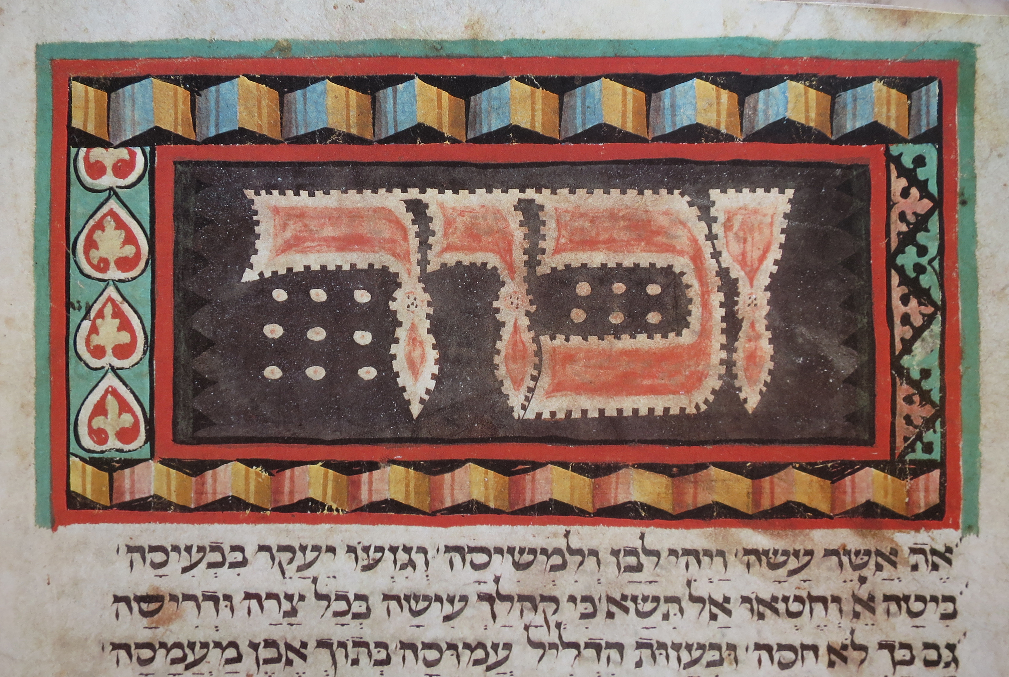 Machsor of Worms